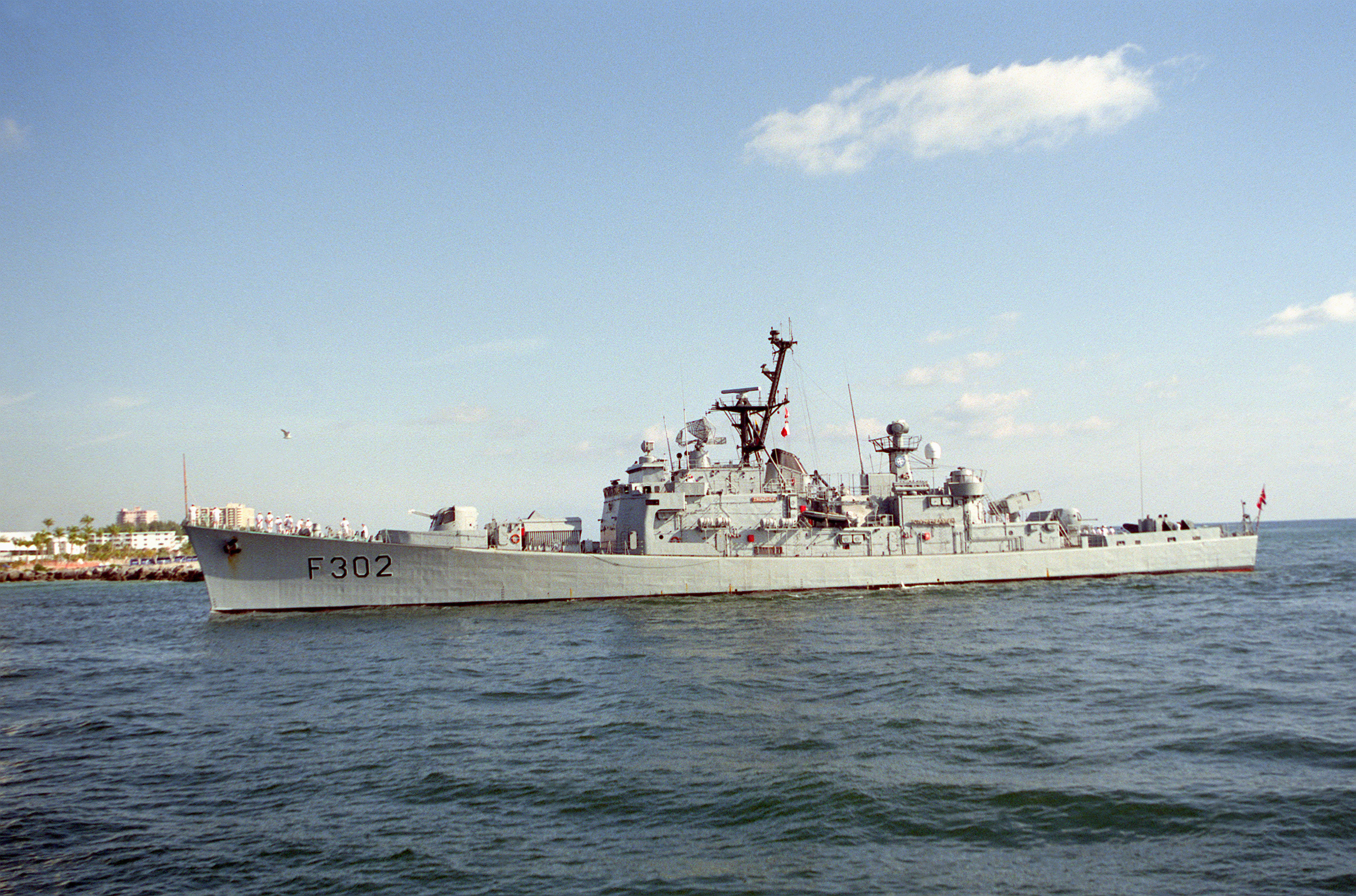 The Norwegian frigate KNM Trondheim (F302) entering Port Everglades, Florida (USA), in 1993. The Trondheim was assigned to NATO's Standing Naval Force Atlantic.